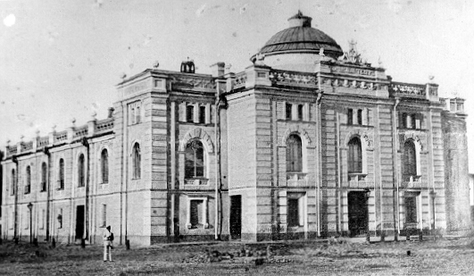 Old building of Volkov theater